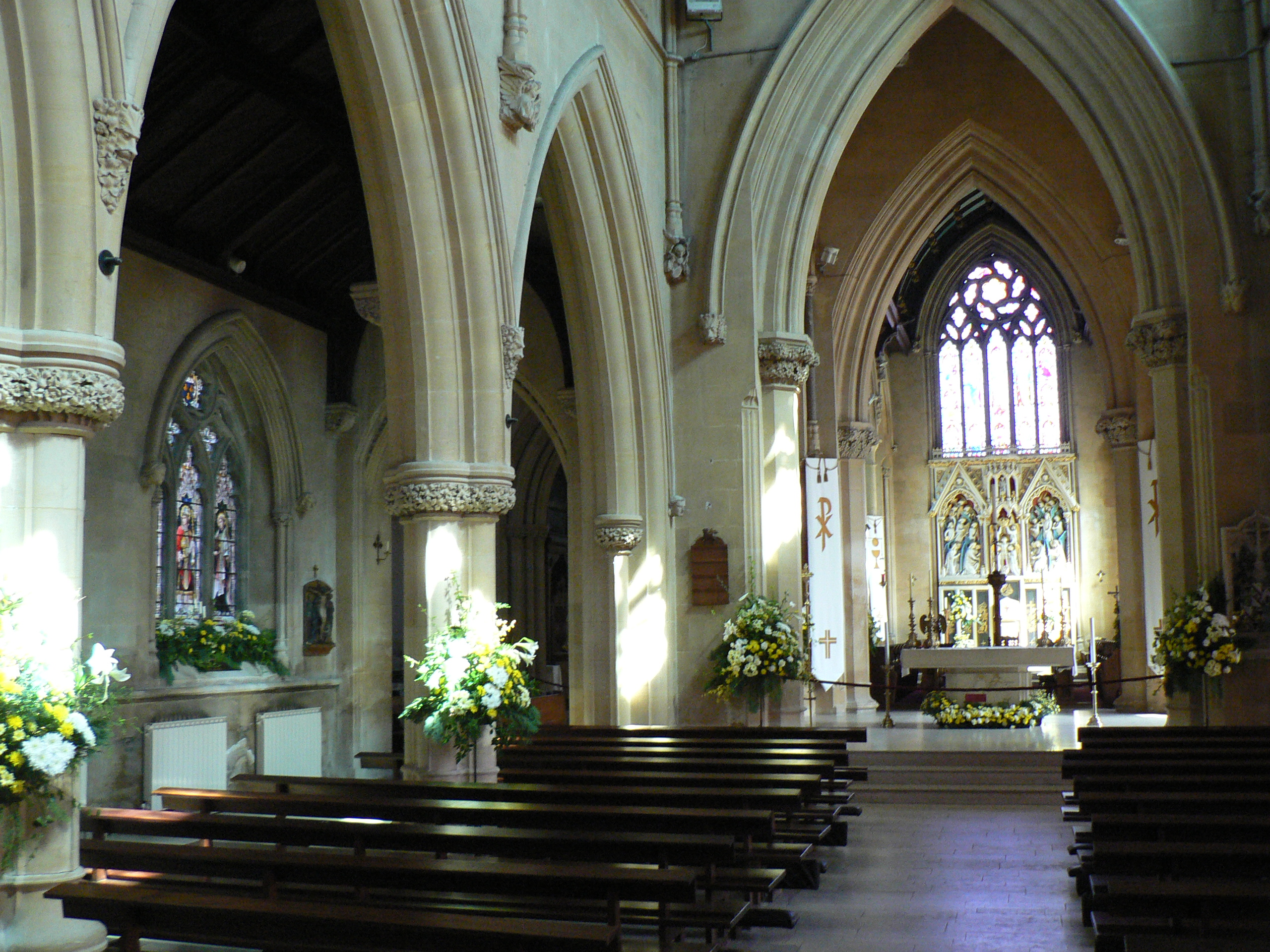 St Michael and All Angels Roman Catholic church, Belmont Abbey, Herefordshire: view from the nave toward the chancel and north aisle